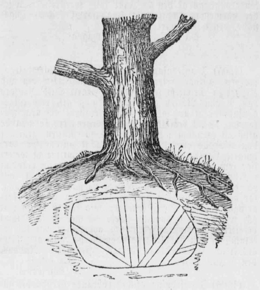 A drawing of the Vanhakartano Groove Stone in Lammi, Finland, drawn by Frans August von Platen and published by C. A. Gottlund in Finlands Allmänna Tidning in 1857.